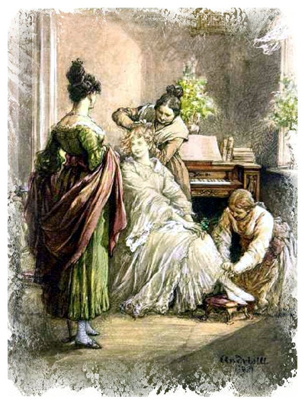 Illustration of Pan Tadeusz, Book 5